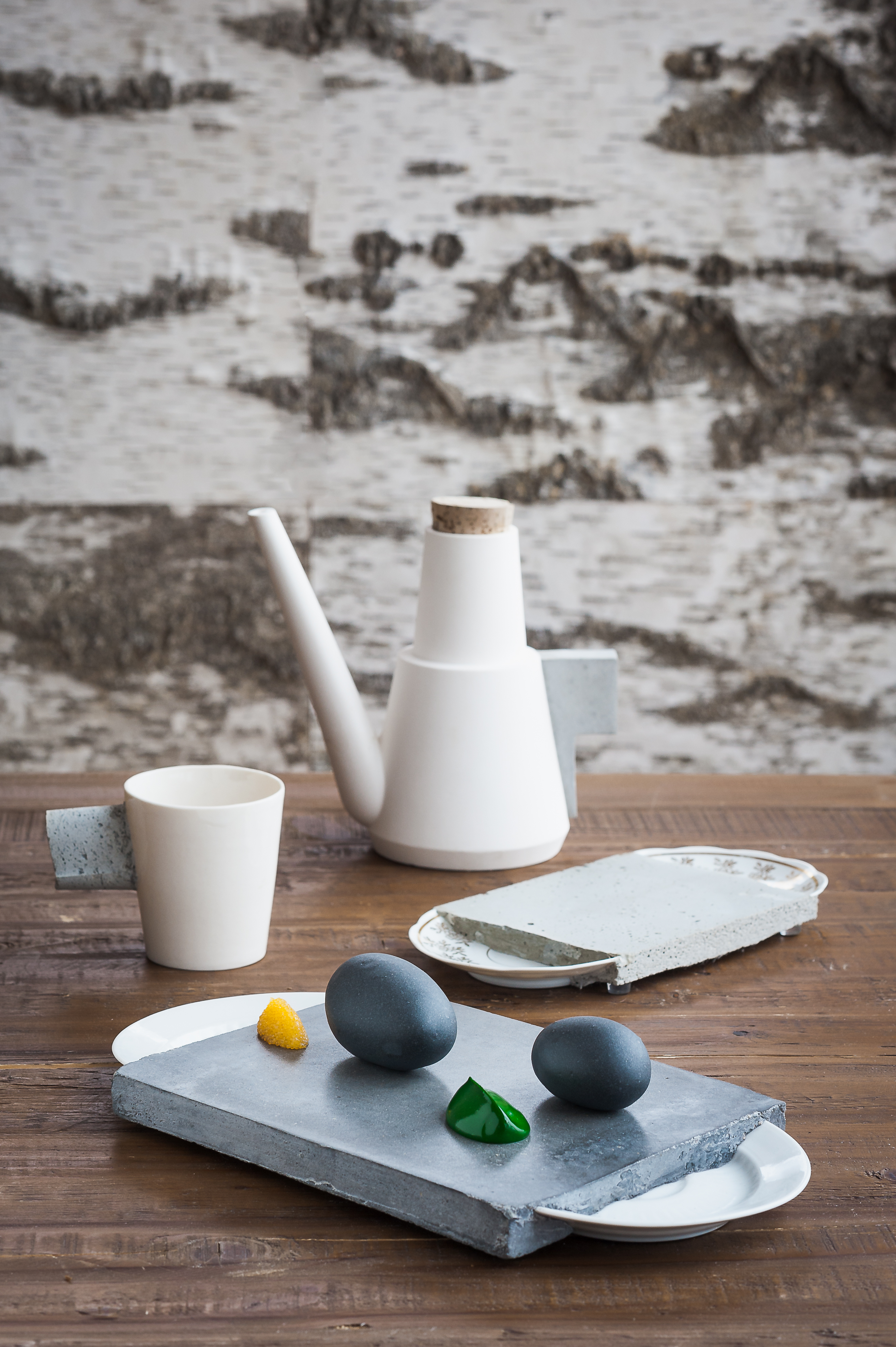 Concrete tablewear